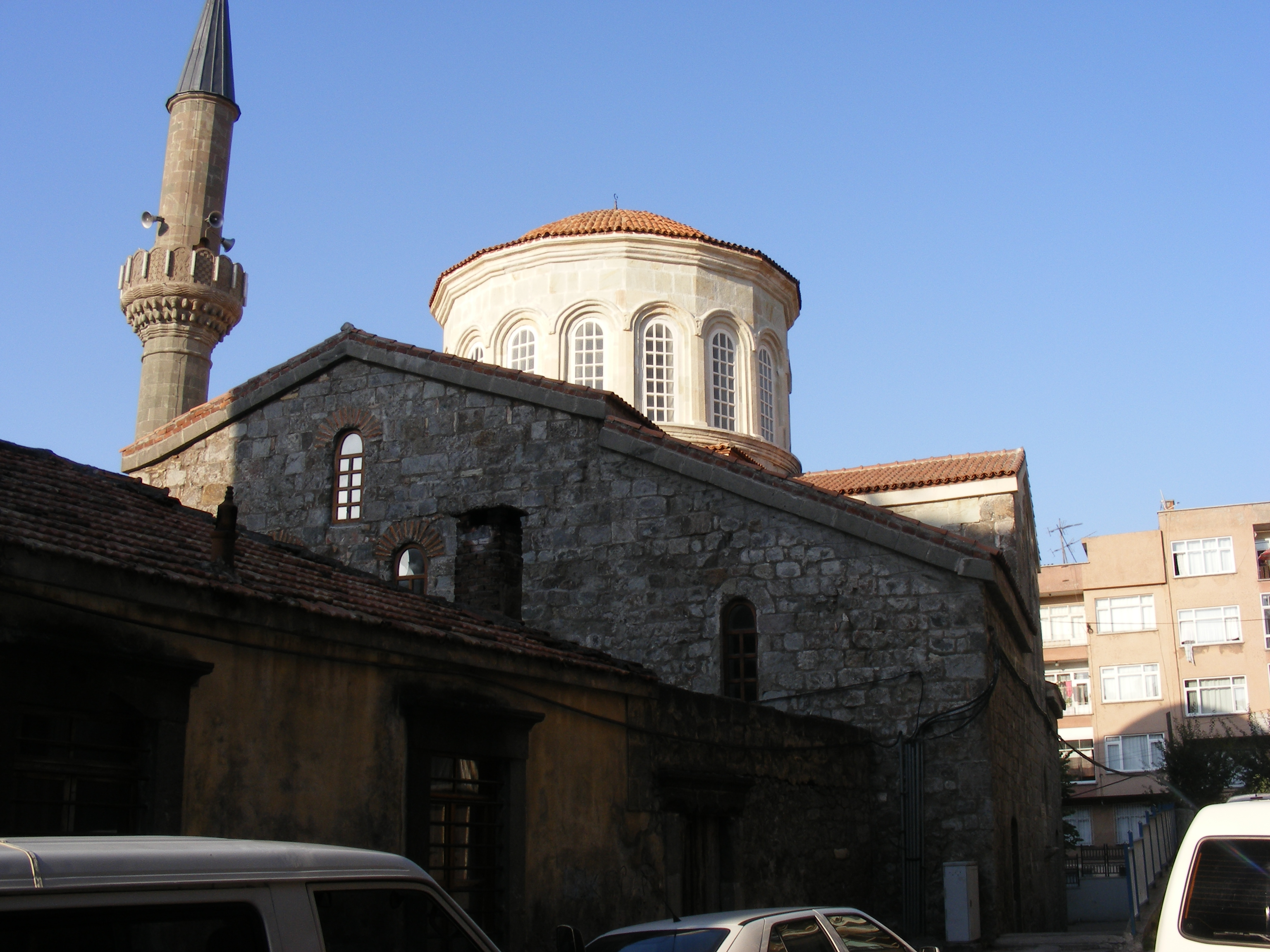 Hagios Eugenios church (now Yeni Cuma Camii), Trabzon